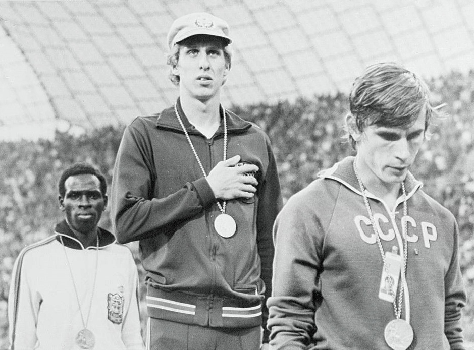 1972 Press Photo David Wottle American National Anthem